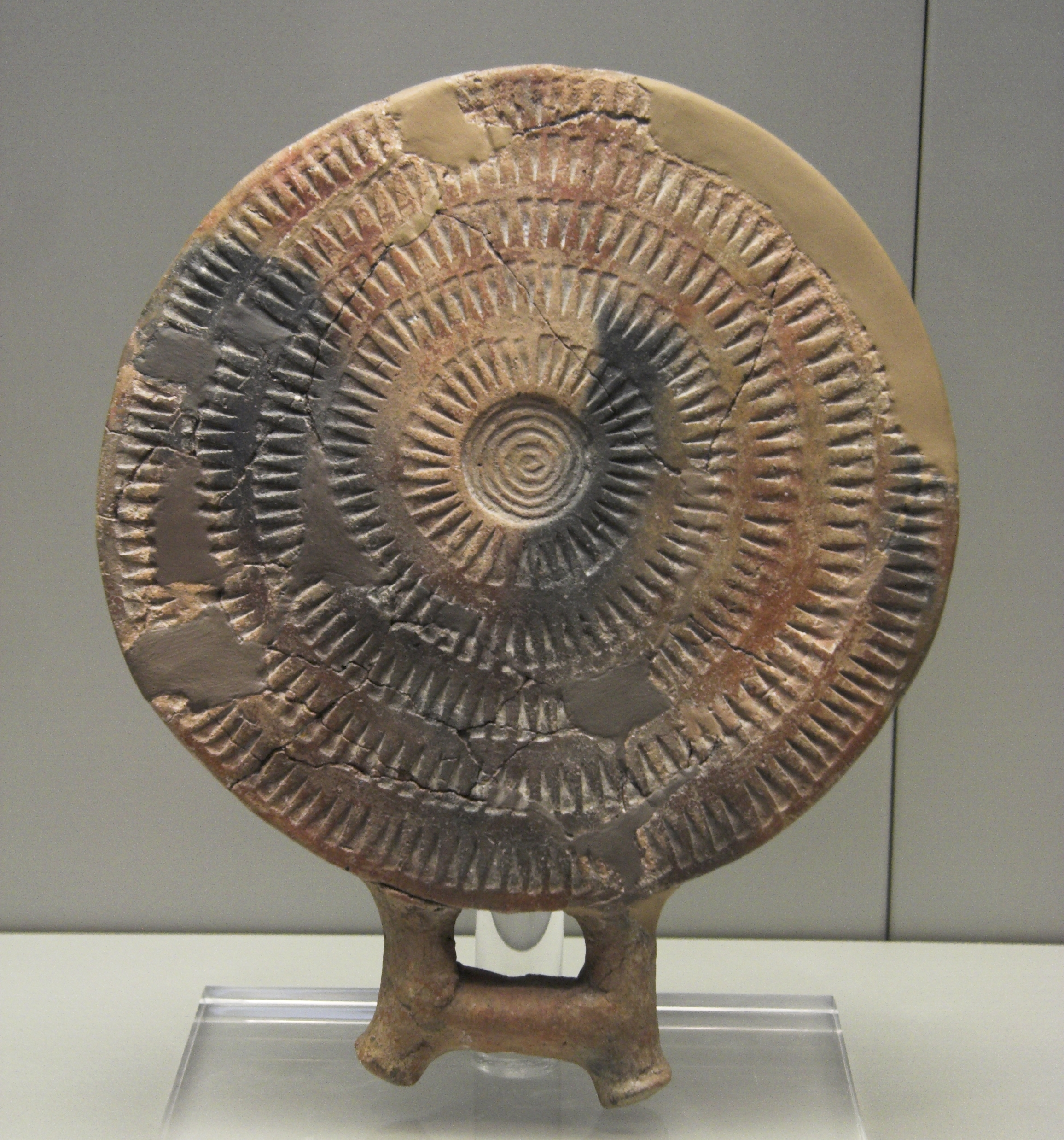 Clay Cycladic "frying-pan". "Non feminine" type. Found on Attika, near Faleros bay. Early cycladic II period, 2800-2300 BC. National Archaeological Museum Athens.